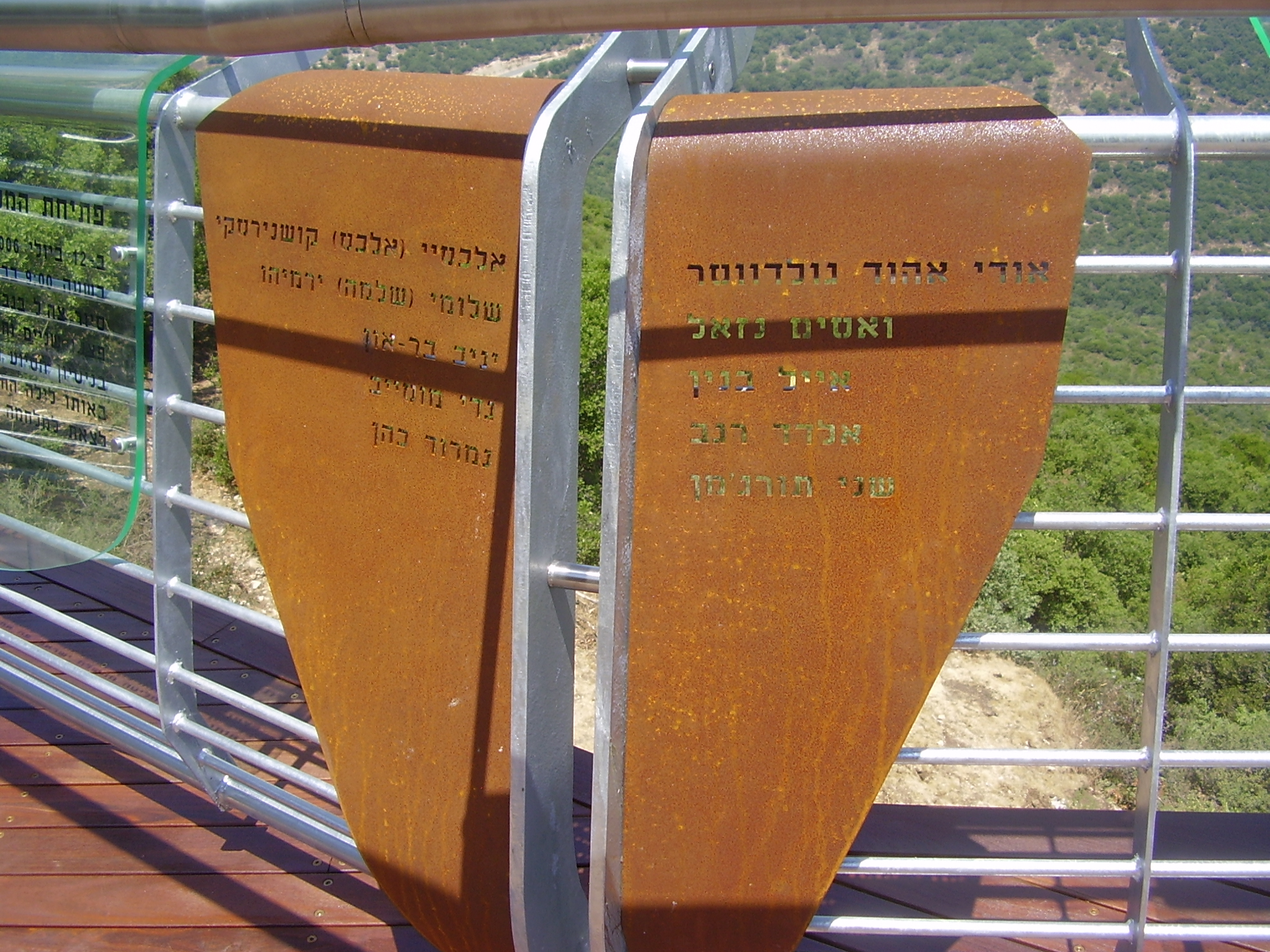 mt. adir memorial lookout in upper galilee